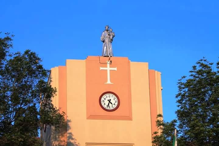 This particular photo shows the administration building of St.Anthony's College